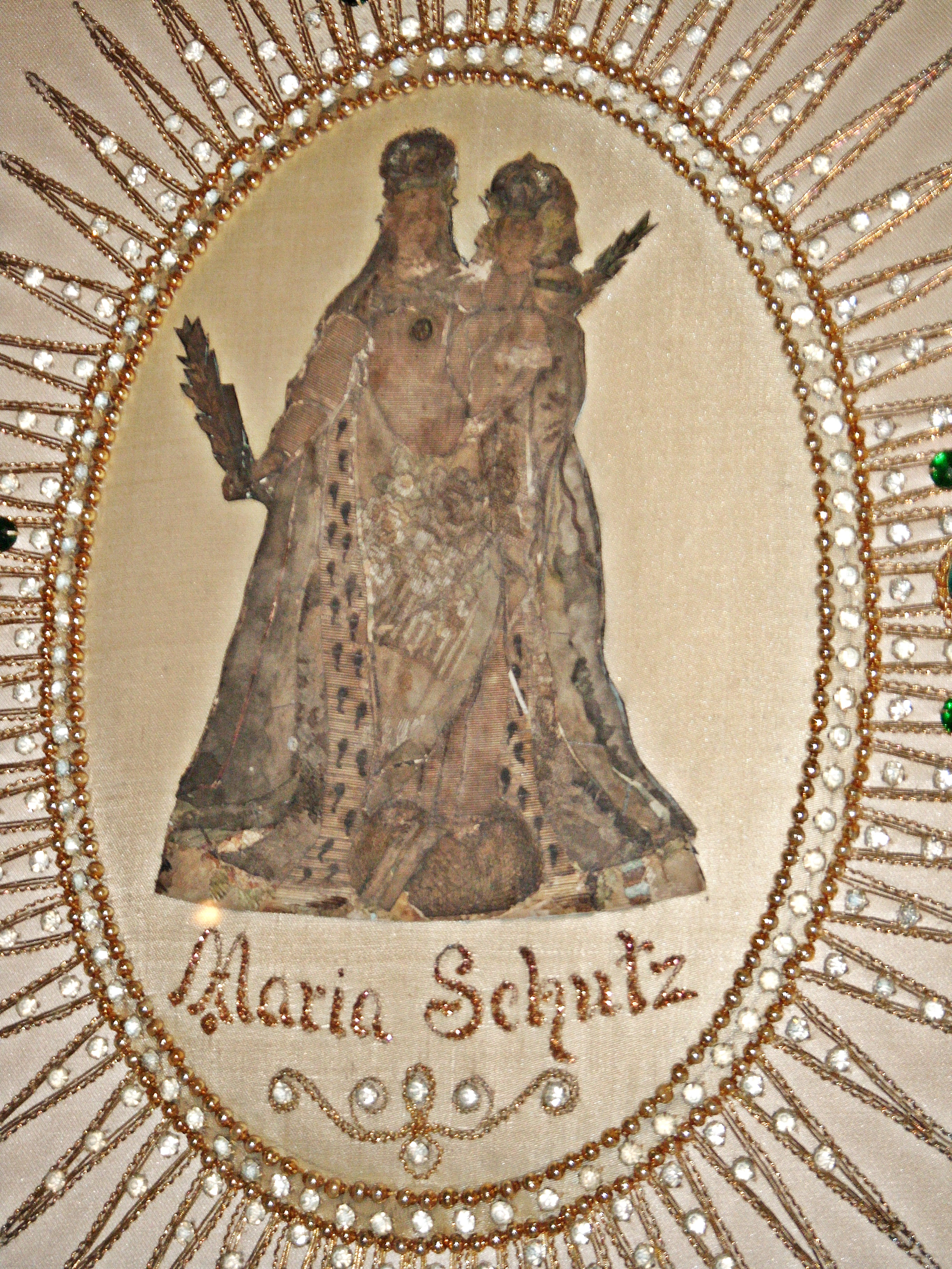 Pfeddersheimer Gnadenbild, 17. Jahrhundert (Simultankirche); ursprünglich aus Elmpt